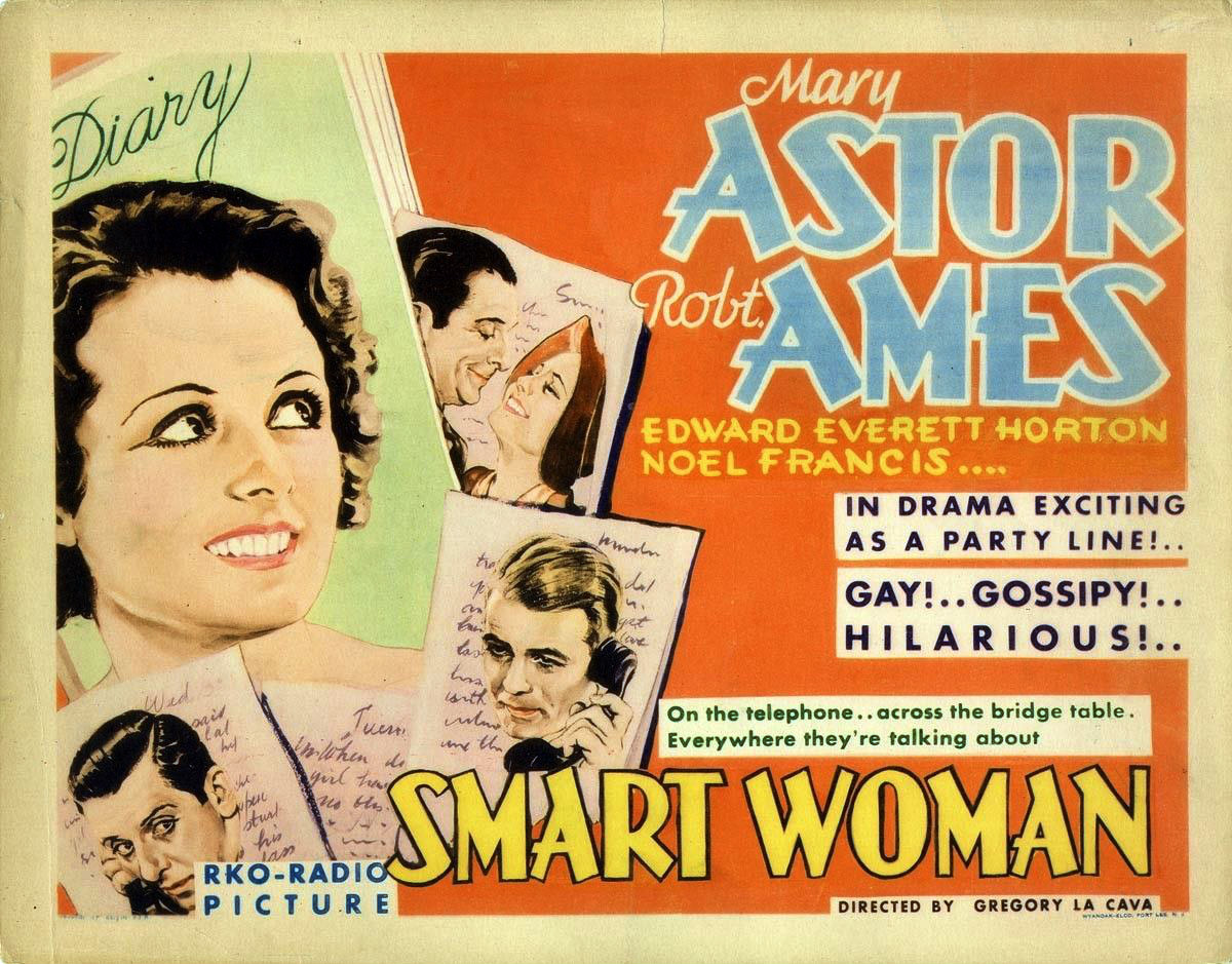 Lobby card for the American romantic comedy film Smart Woman (1931). There are no copyright marks. At bottom left is Country of origin USA. At bottom right is Wyanoak-Elco, Fort Lee, NJ.-they printed the card.